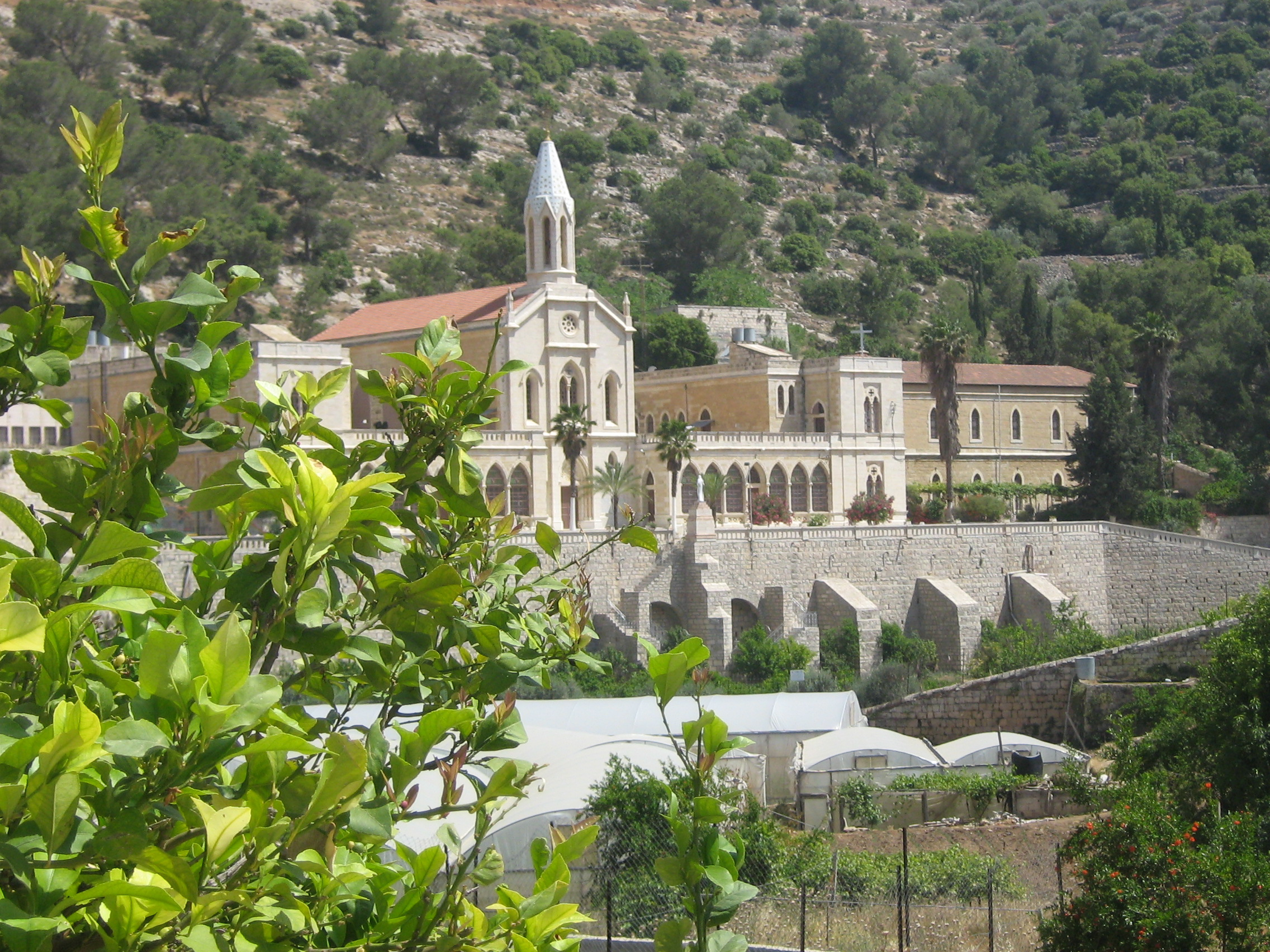 This lovely church, built at the turn of the twentieth century, is located across the Artas Valley from the village of the same name. In fact, "Artas" is thought to be derived from "Hortus Conclusus," alluding to a verse from the Song of Solomon. Ethnographers have found many parallels with that canticle in the traditions of the village. The association extends to the nearby Solomon Pools, traditionally guarded by the villagers of Artas during the Ottoman period, and equally present in their folklore. The existence of the convent in the midst of an entirely Muslim village attests to the centuries of peaceful coexistence between Christians and Moslems in the Holy Land. The Soler Park adjoining the Convent often served as the site of the Annual Artas Lettuce Festival before it outgrew the space. For more information